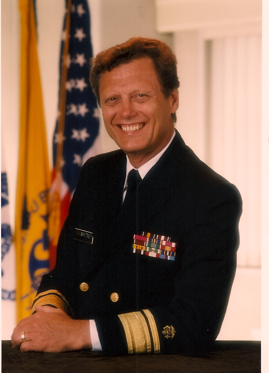 RADM Robert A. Whitney, Jr.